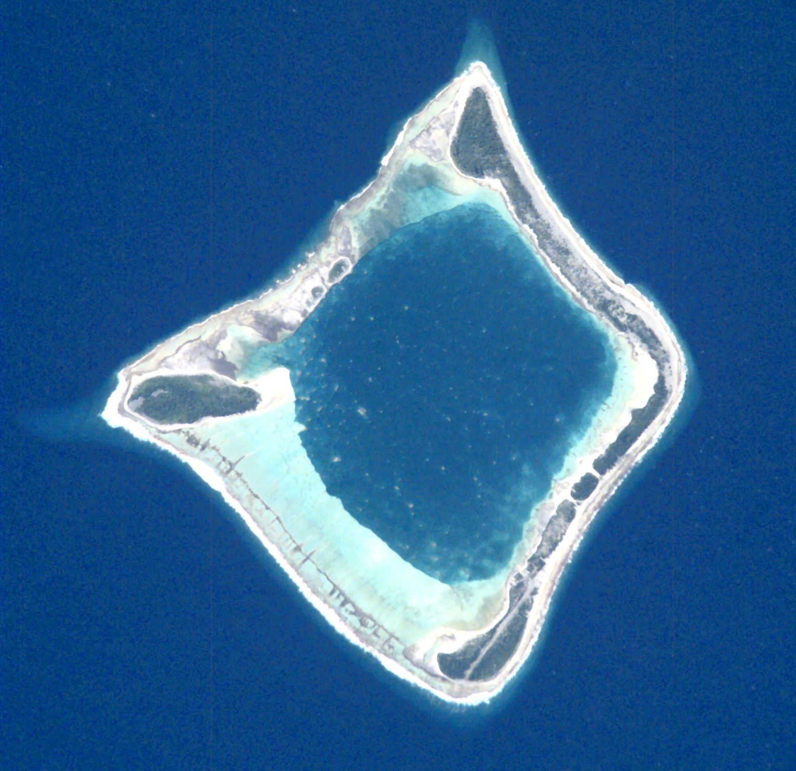 NASA astronaut image of Anuanuraro (Tuamotu Archipelago, French Polynesia) in the Pacific Ocean